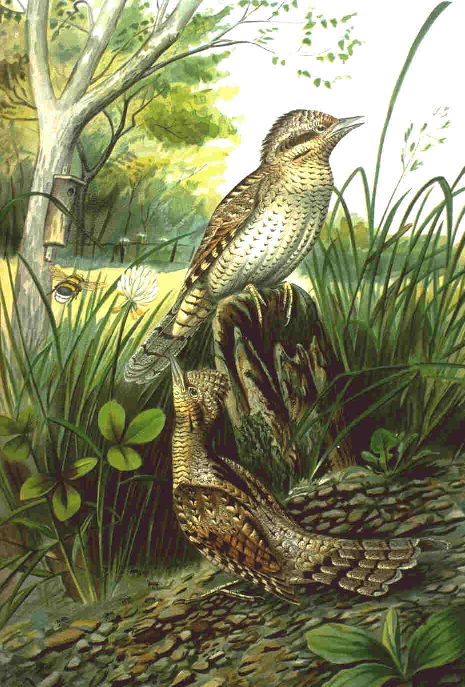 European wryneck Jynx torquilla. This image comes from the book Naumann, Naturgeschichte der Vögel Mitteleuropas (Natural history of the birds of central Europe), Band IV, Tafel 36 - Gera, 1901